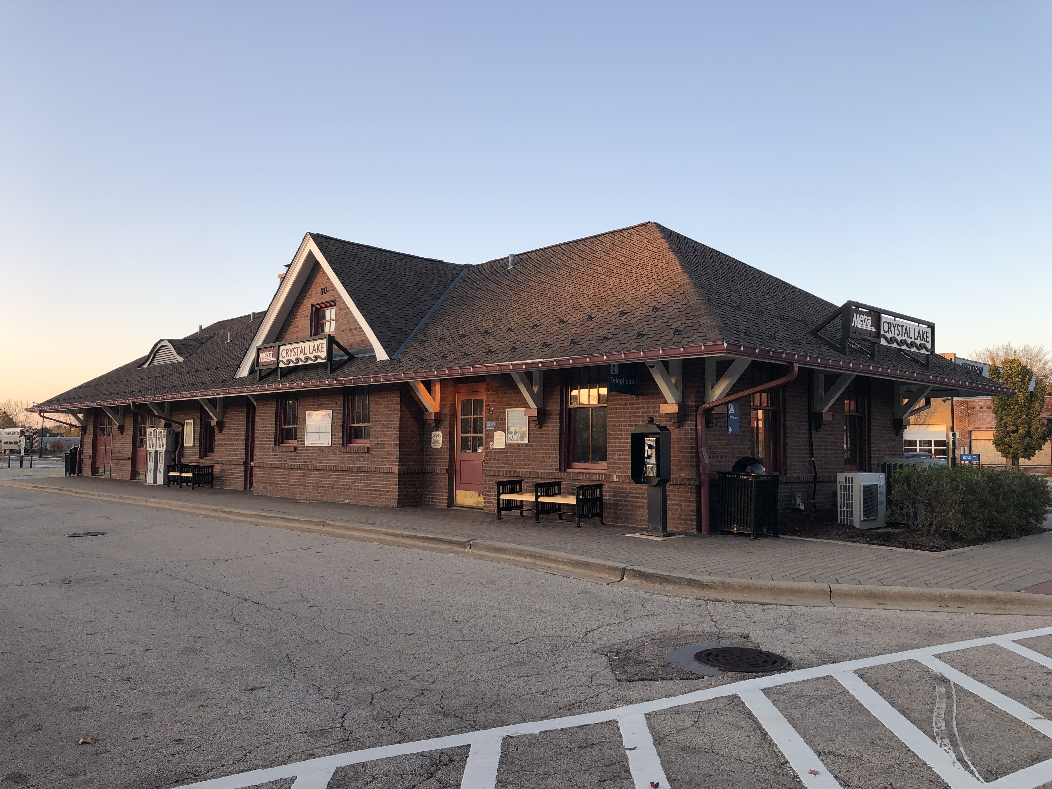 The Metra Northwest Line train station at Crystal Lake, Illinois. Looking north toward the station from its south corner. October 27, 2019.